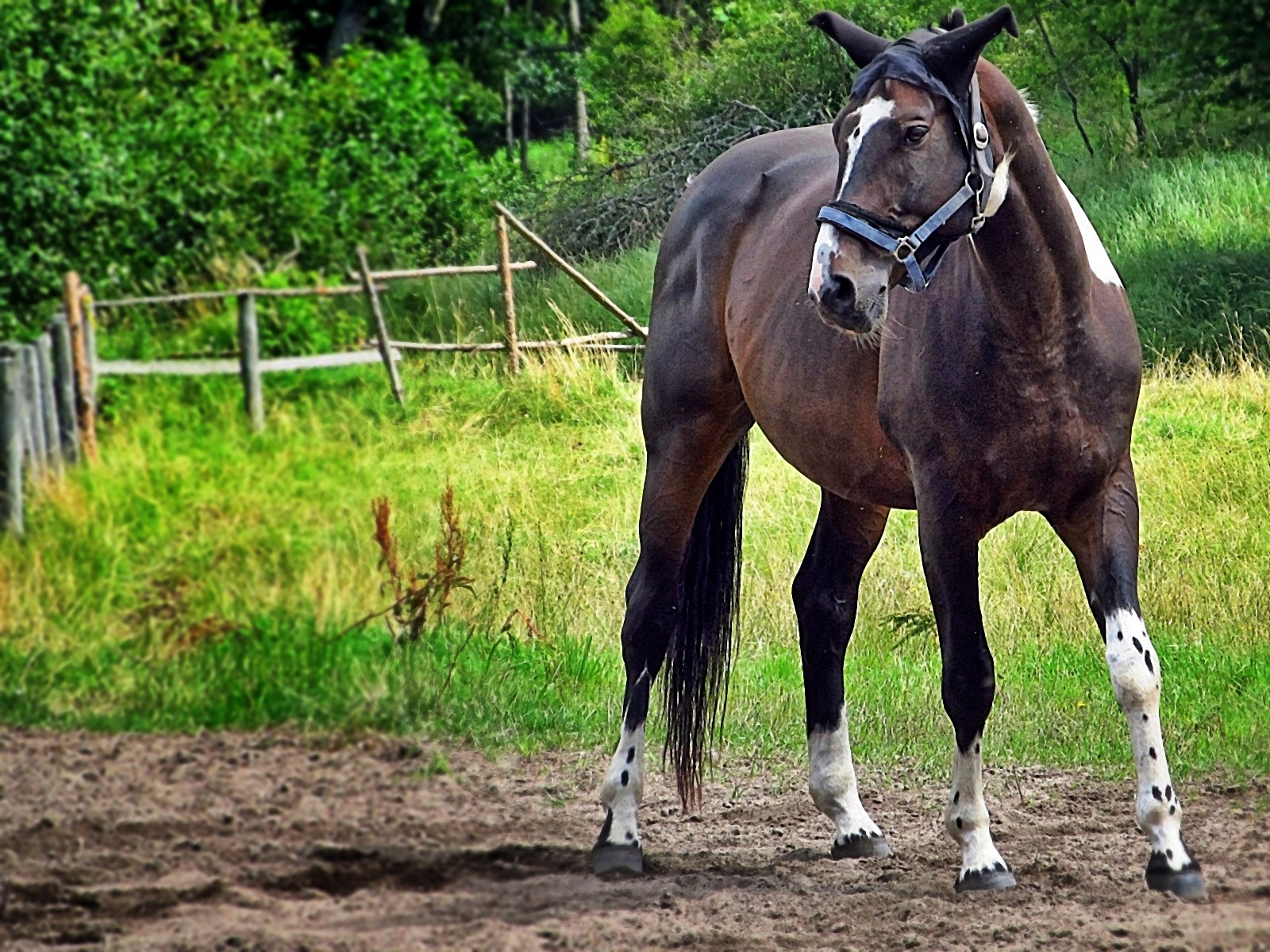 Horse in the meadow in Borsk